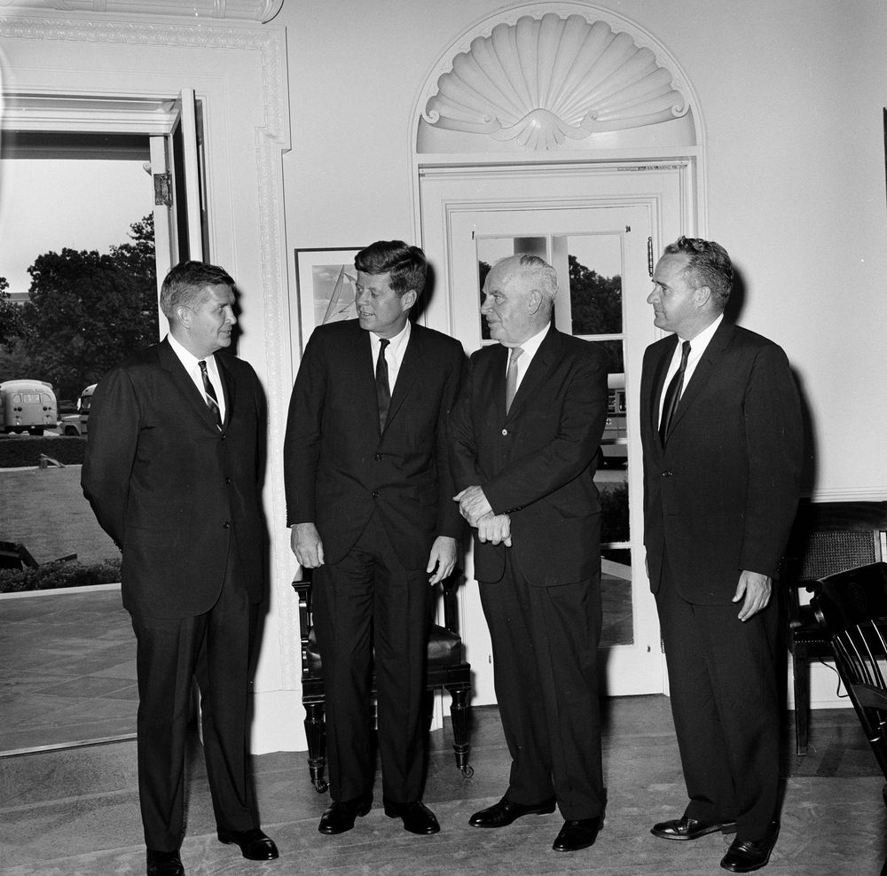 From left to right: Terry Sanford, John F. Kennedy, Luther H. Hodges, and an unidentified man